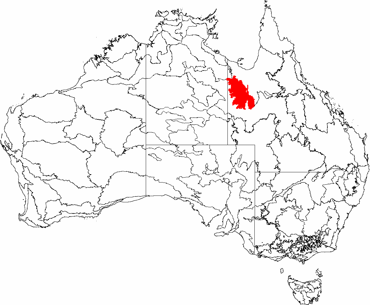 This is a map of the Interim Biogeographic Regionalisation of Australia (IBRA), with state boundaries overlaid. The Mount Isa Inlier region is shown in red.